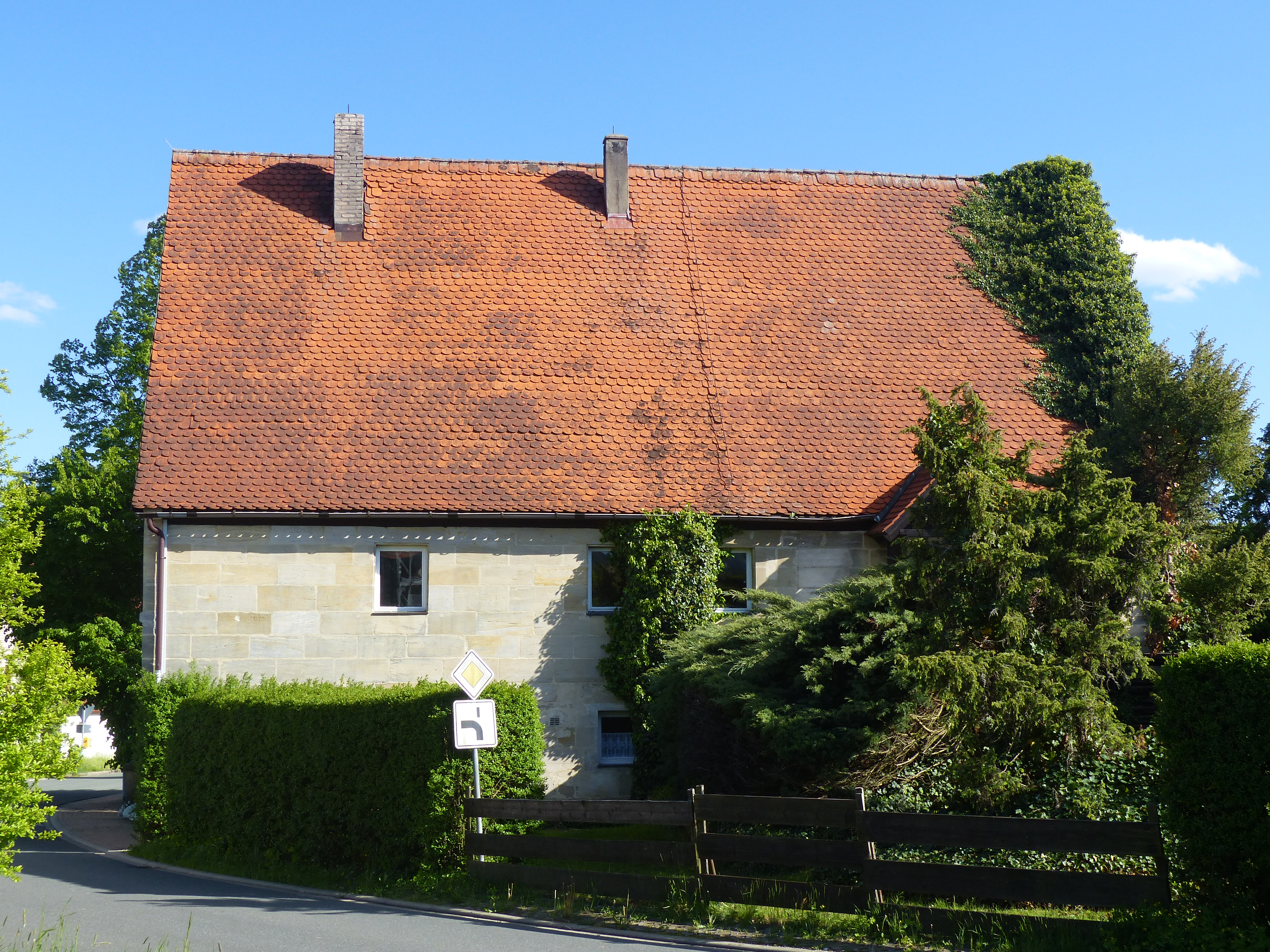 A former farmhouse in the village Affalterbach, a district of the municipality of Igensdorf